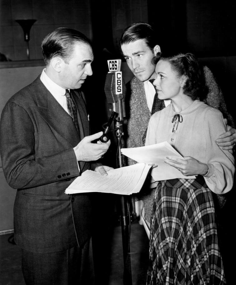 Photo of Santos Ortega as Inspector Queen (father of Ellery), Hugh Marlowe as Ellery Queen and Marian Shockley as Ellery's asistant, Nikki, from the radio program The Adventures of Ellery Queen.